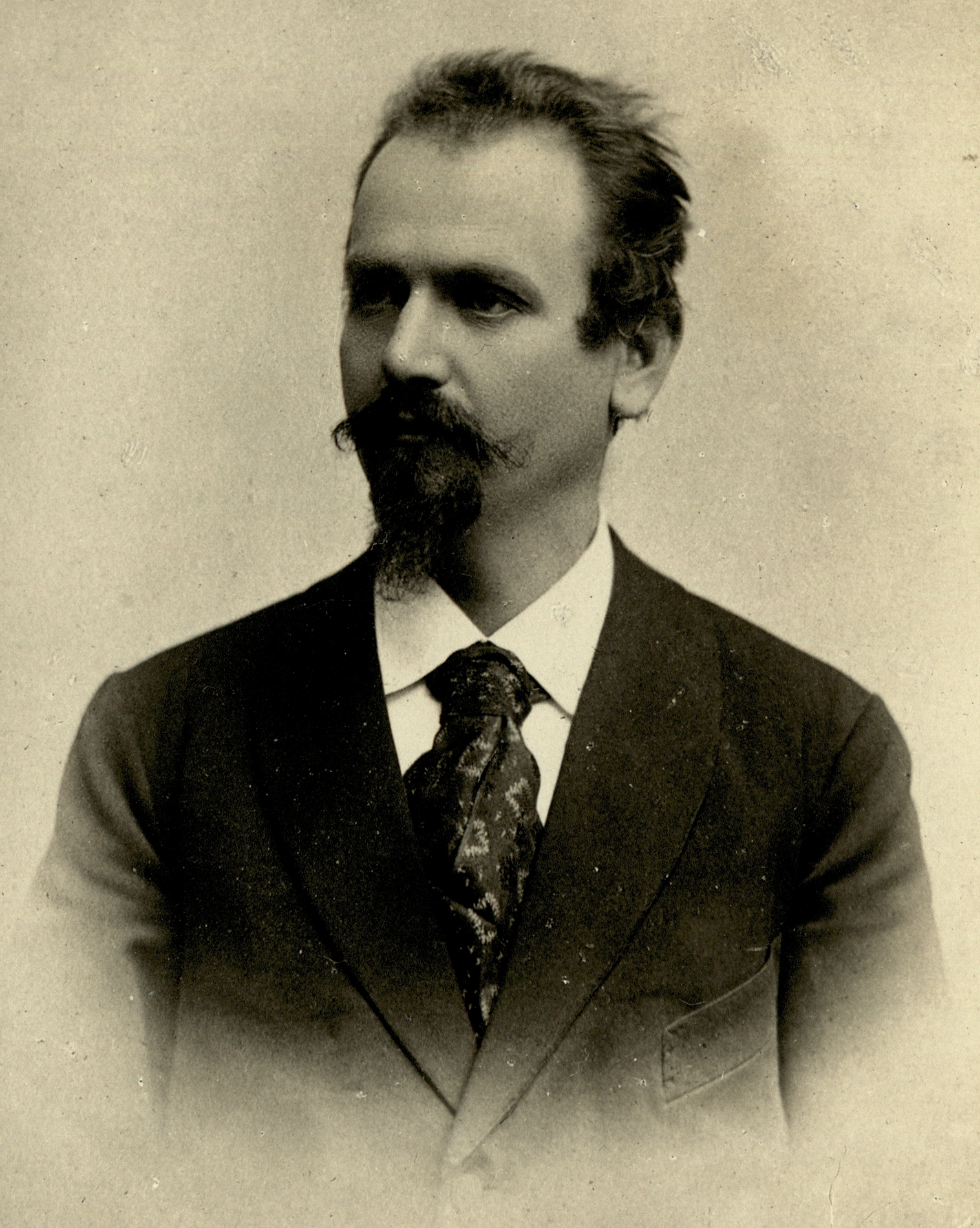 Alojzij Gangl (1859-1935), slovene sculptor.